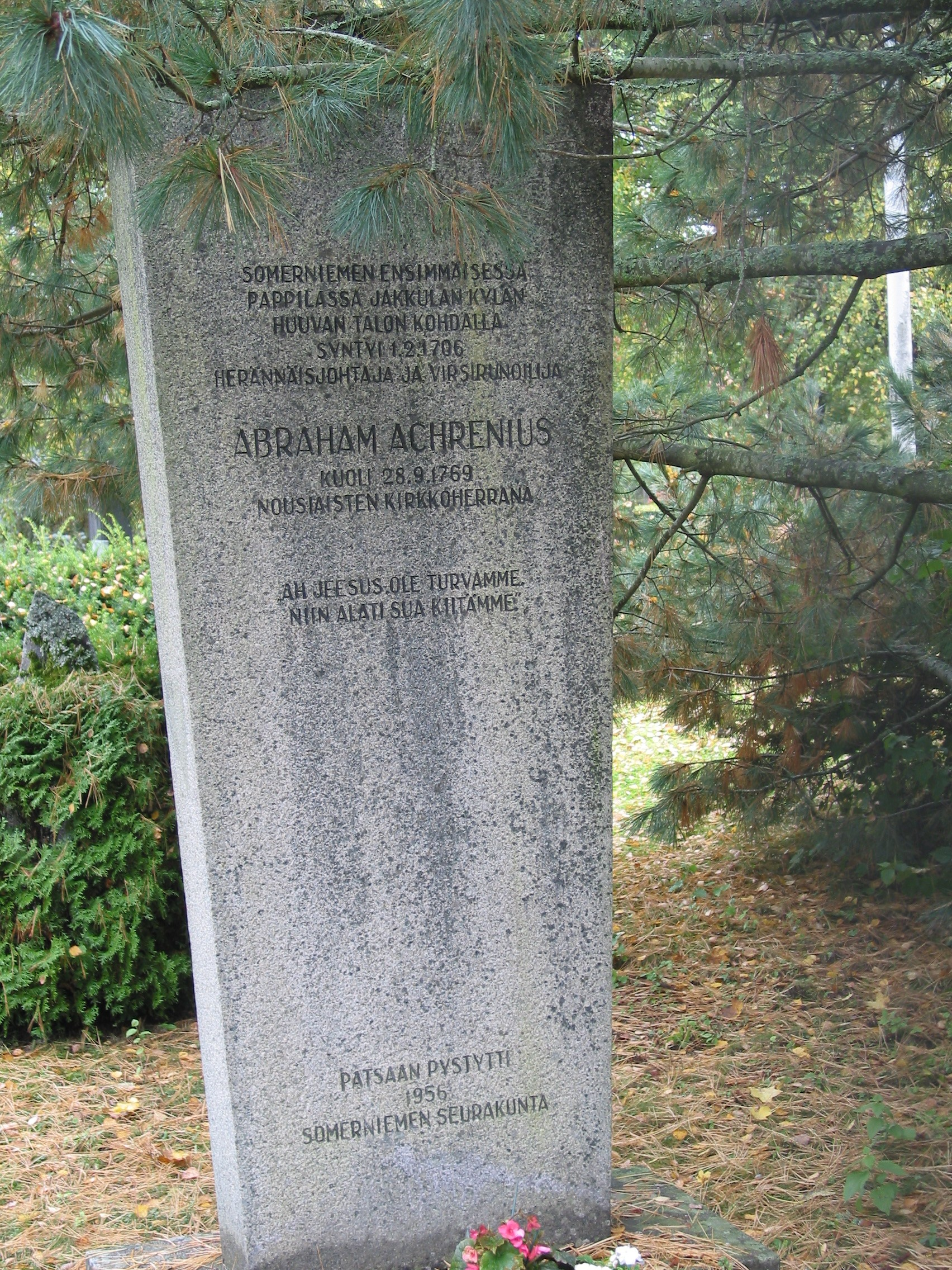 Monument of Abraham Achrenius close to the Somerniemi Church